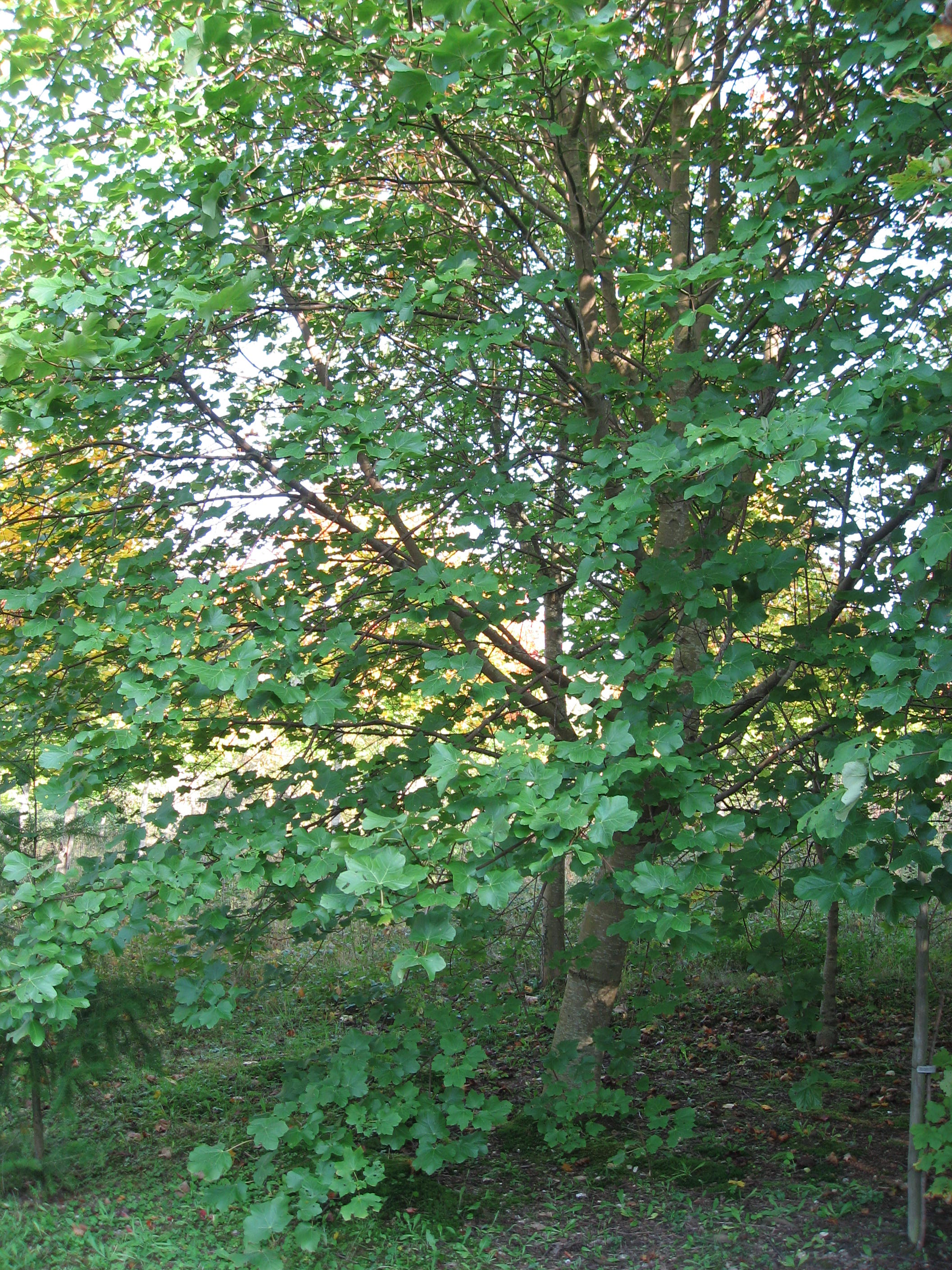 Acer opalus in Arboretum de La Roche-Guyon Map: 49° 5' 56" N 1° 38' 23" E